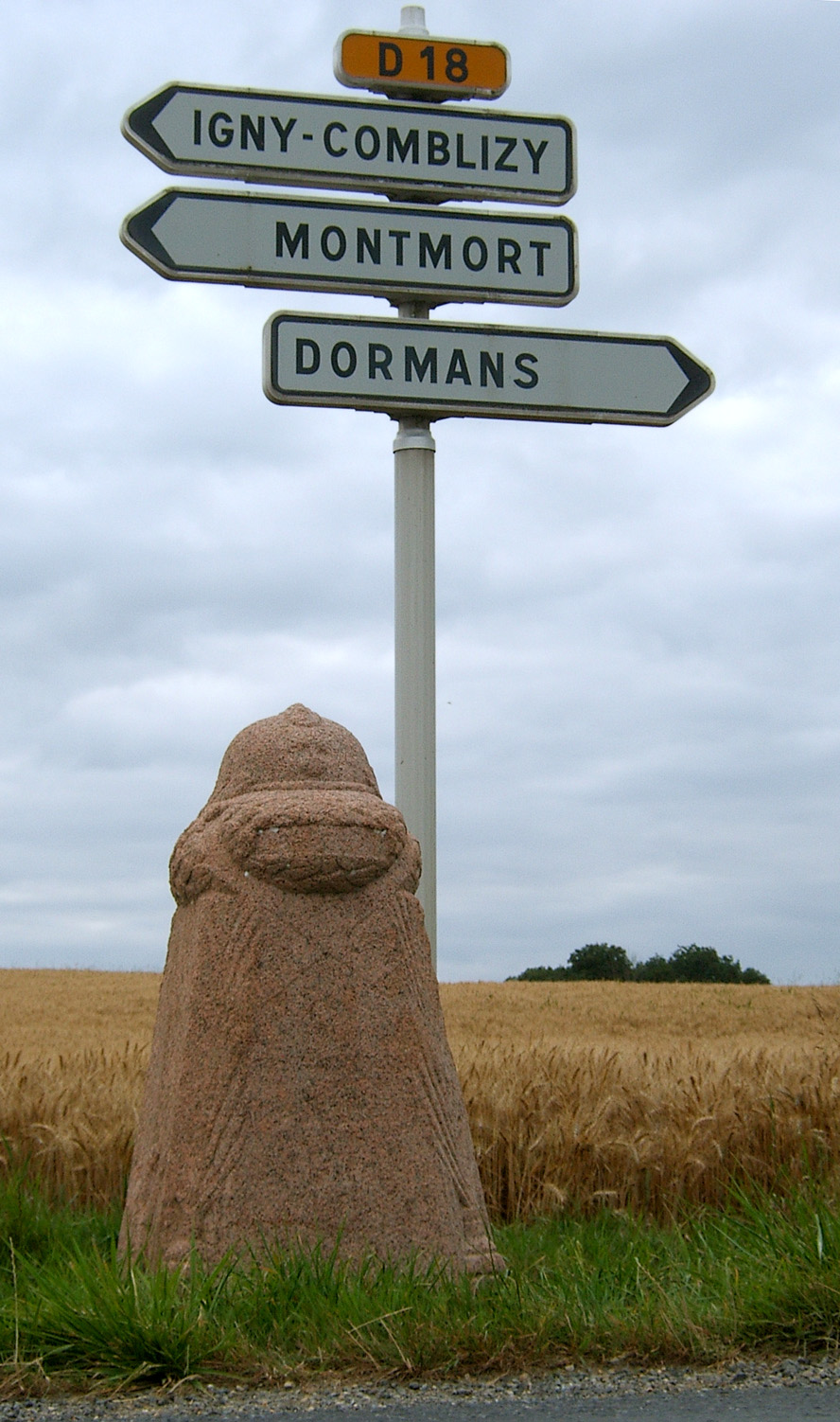 One out of 119 bornes Vauthier, which together matrialize the front line at July, 18th 1918. Demarcation stone 52 at Comblizy